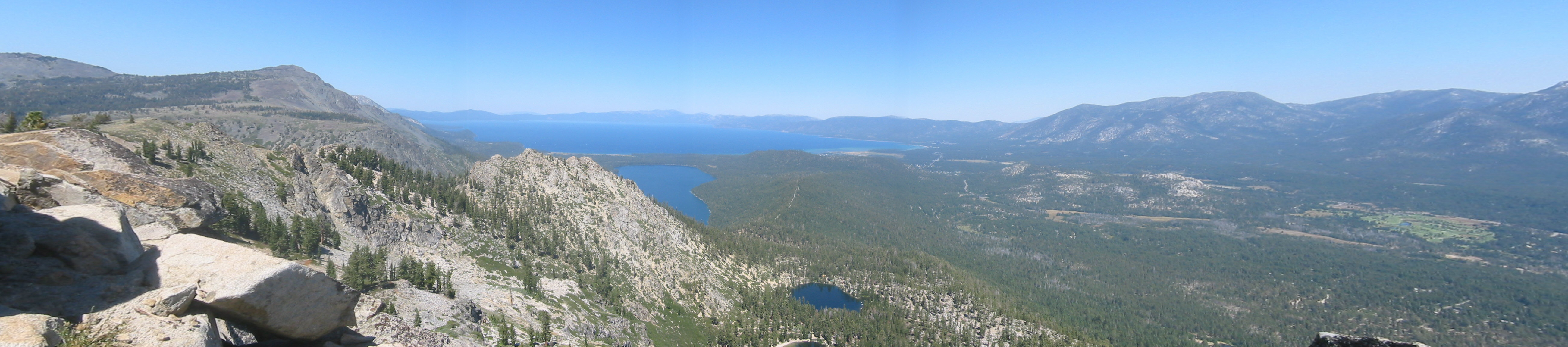 The view from Echo Peak includes Mount Tallac, Lake Tahoe, Fallen Leaf Lake, and the Angora Lakes.